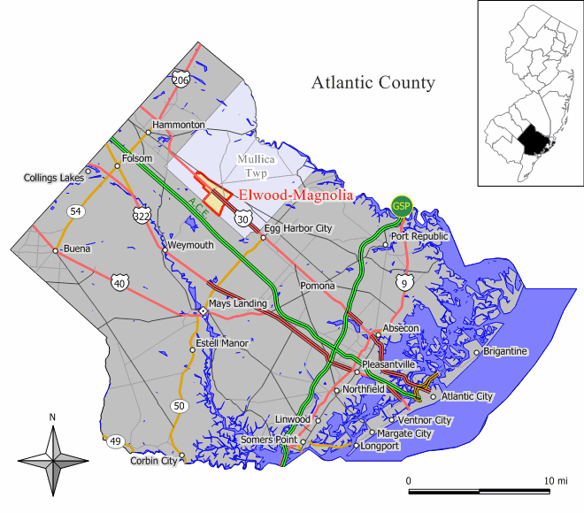 Source: Jim Irwin Original work by Jim Irwin, December 2005.